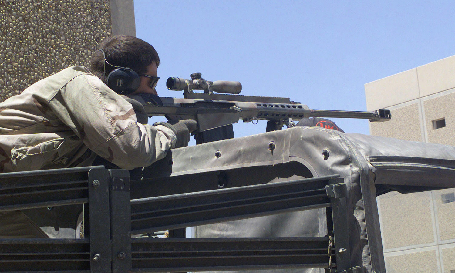 US Marine Corps (USMC) Staff Sergeant (SSGT) Ian M. Perry, Staff Noncommissioned Officer in Charge (SNCOIC), Scout Sniper Platoon, Headquarters and Service Company (H&S CO), 1st Battalion, 24th Marines (1/24), practices firing a Barrett 0.50 Light Fifty Model 82A1 rifle just outside of An-Numaniyah Airfield (a.k.a. Three Rivers), Iraq, during Operation IRAQI FREEDOM. Location: AN-NUMANIYAH, WASIT IRAQ (IRQ)